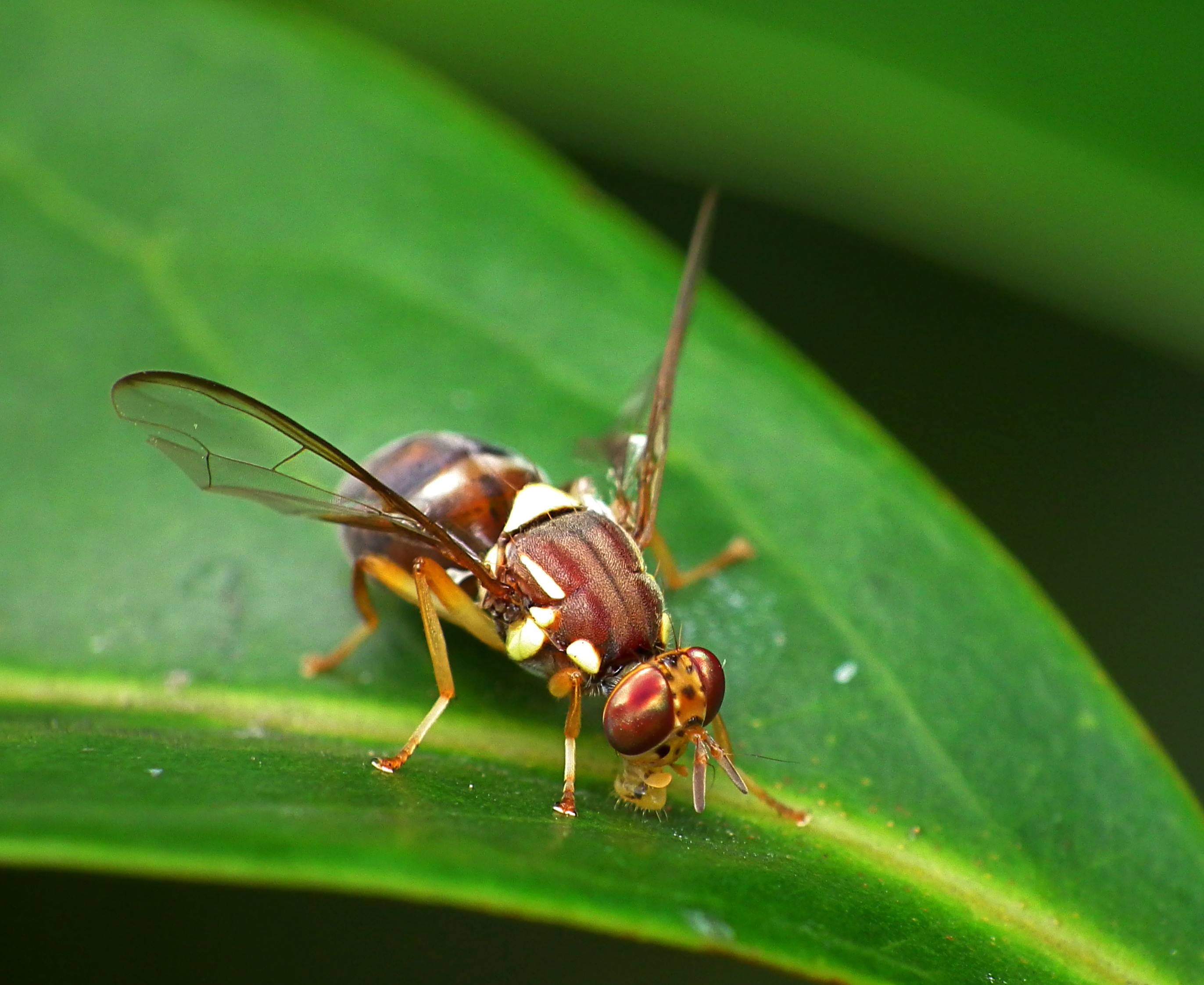 Taken in Brisbane, Queensland, Australia